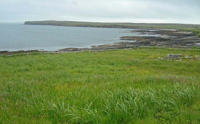 Bay of Linton, Shapinsay, Orkney Islands. The foreground is a marshy meadow. At the right centre is a portion of the ruined chapel illustrated on the OS map.